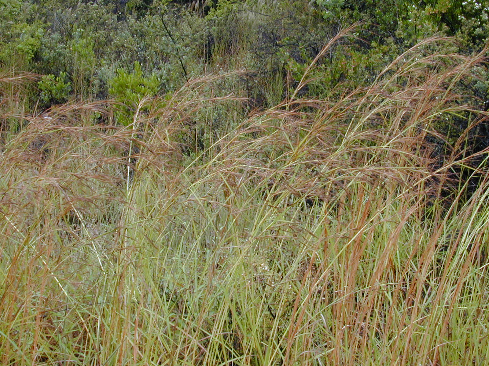 Hyparrhenia rufa (habit). Location: Hawaii, Hwy11 HAVO